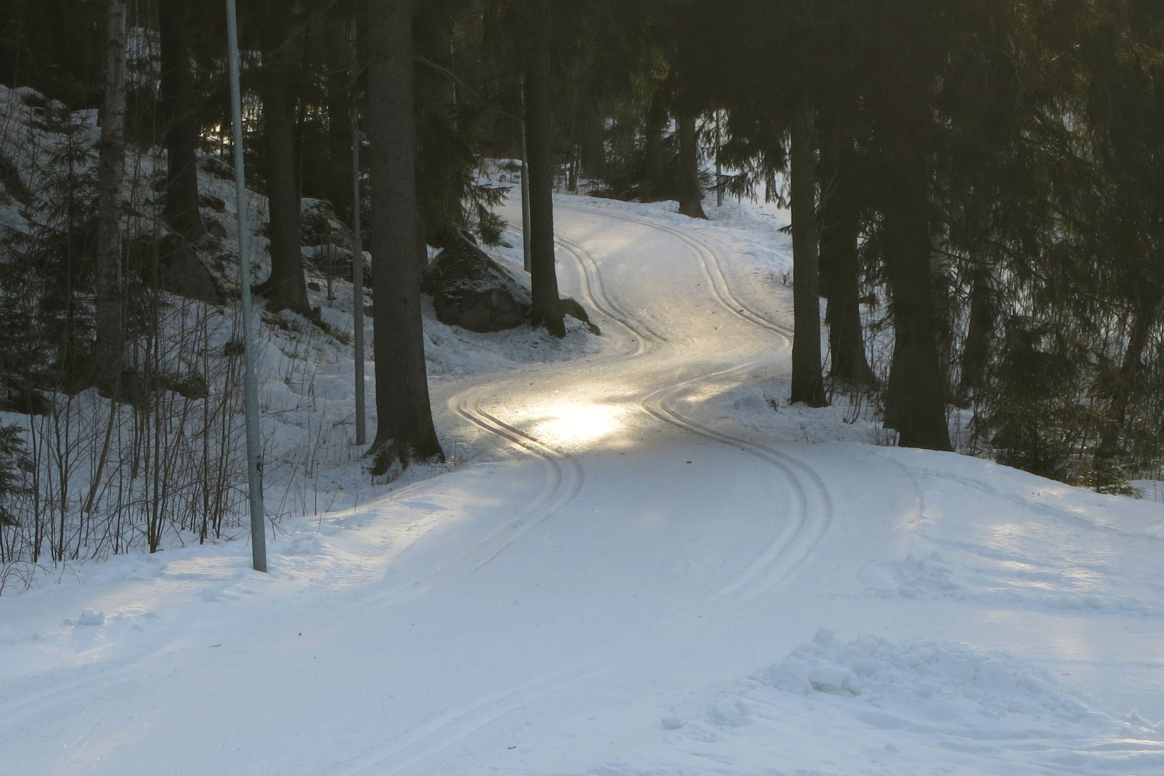 Typical wonderful public ski track with both classical and freestyle skiing possibilities in Finland